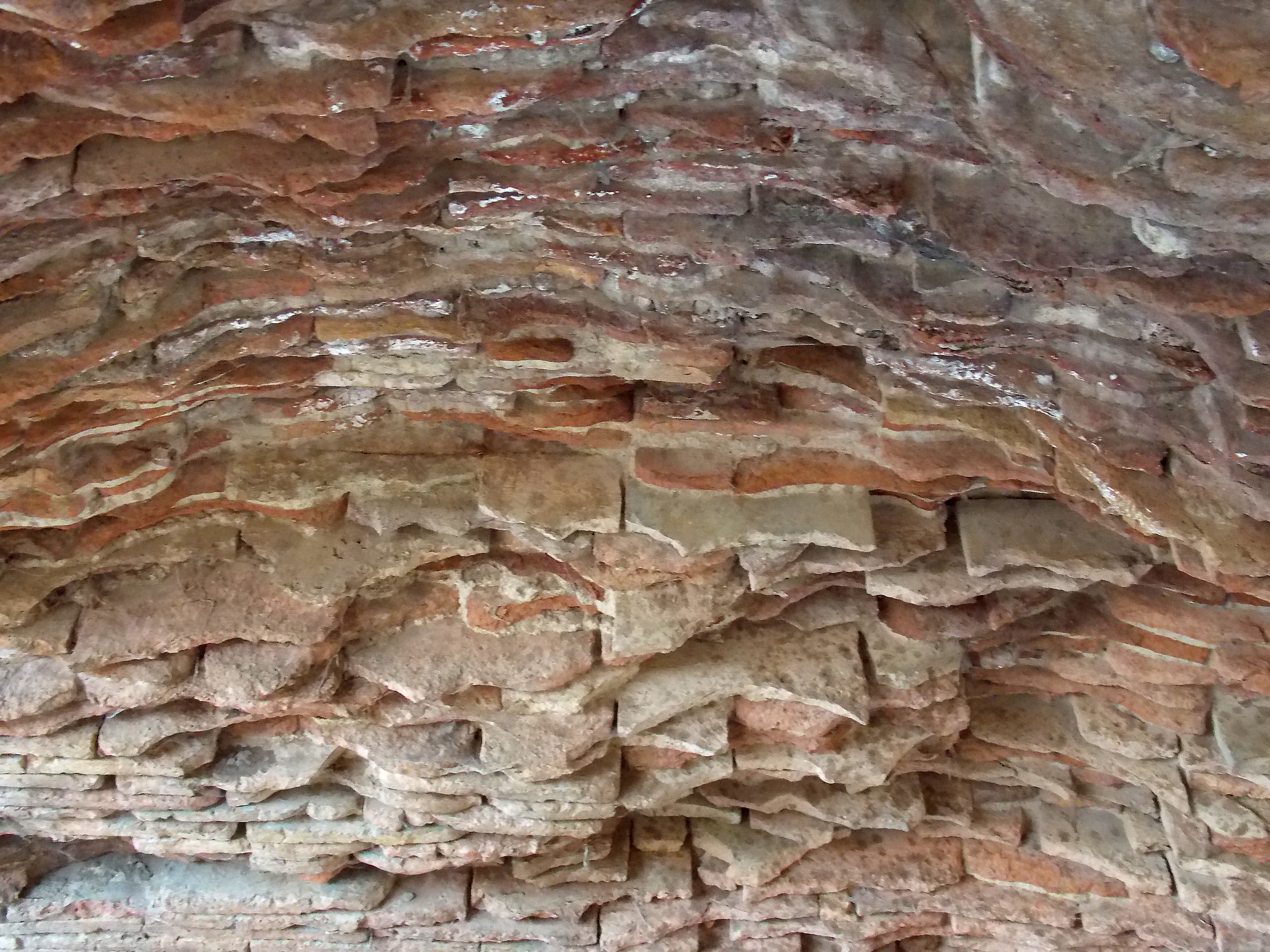 Ponte delle Chianche, Buonalbergo, Southern Italy, along the via Traiana (2nd century AD). The bricks of an arch.